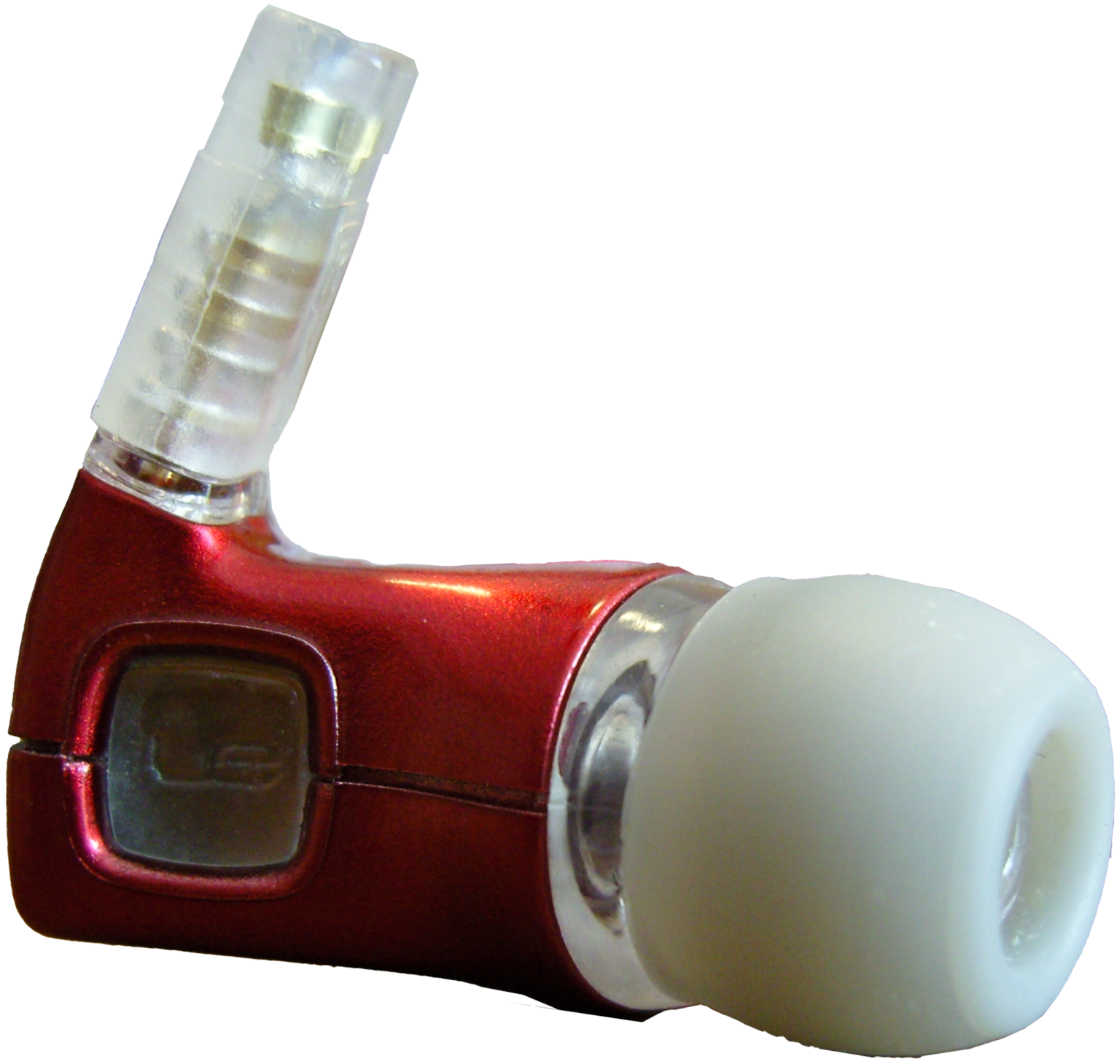 I created this image from an original on Flickr